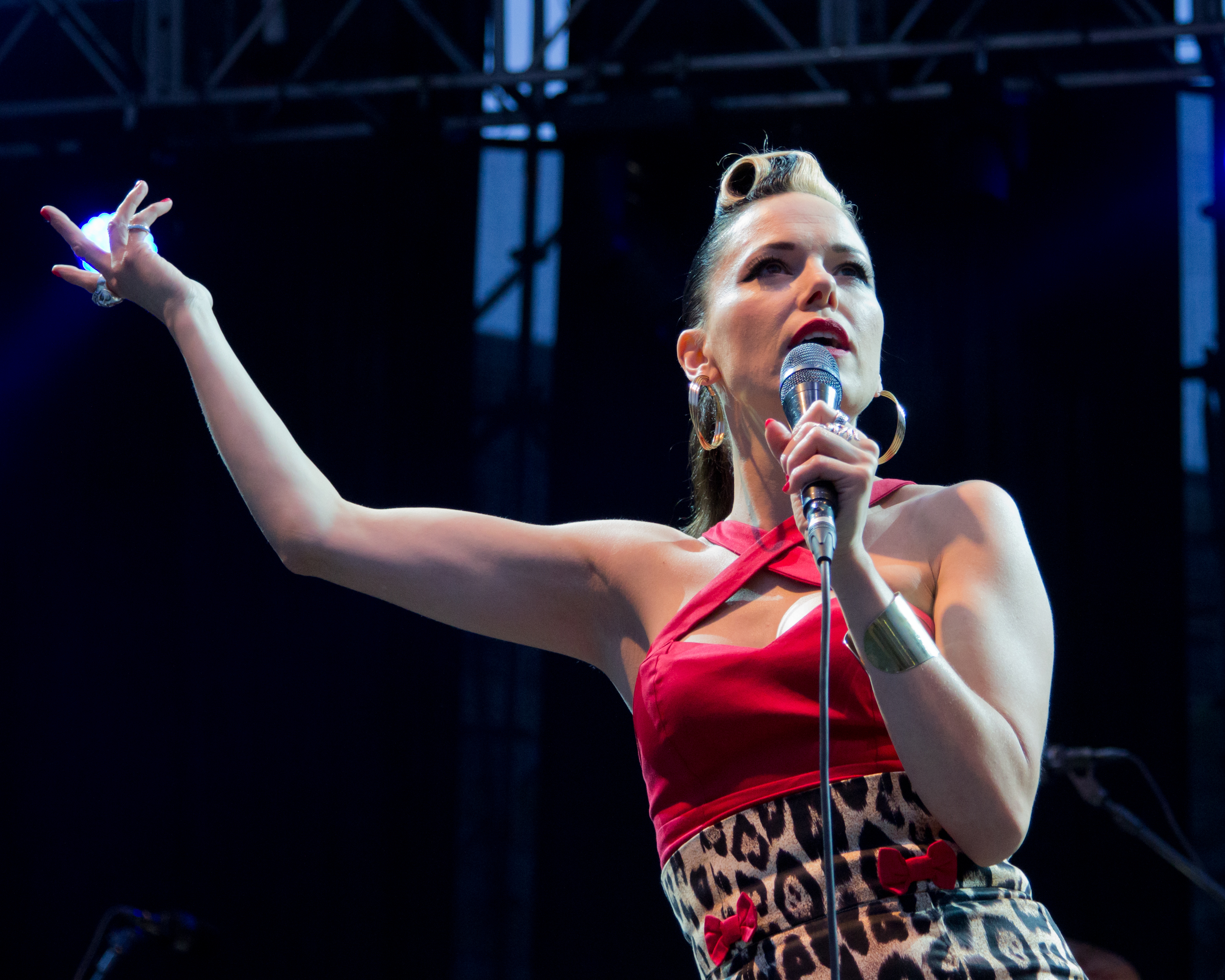 Imelda May at Madgarden Fest 2015, Madrid, Spain.